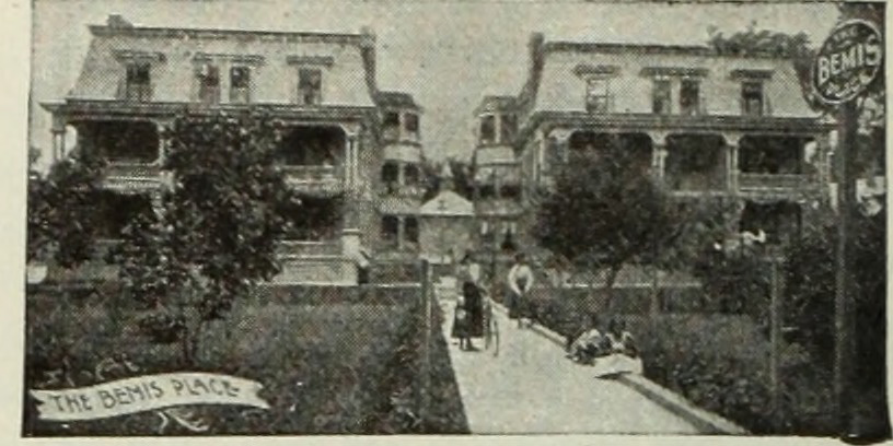 The Bemis Sanitarium, Image from page 45 of "The literary digest" (1890). Glens Falls, Warren County, New York. Buildings on the right are now the Sherman Square Apartments, located at 5 Sherman Avenue, Glens Falls.